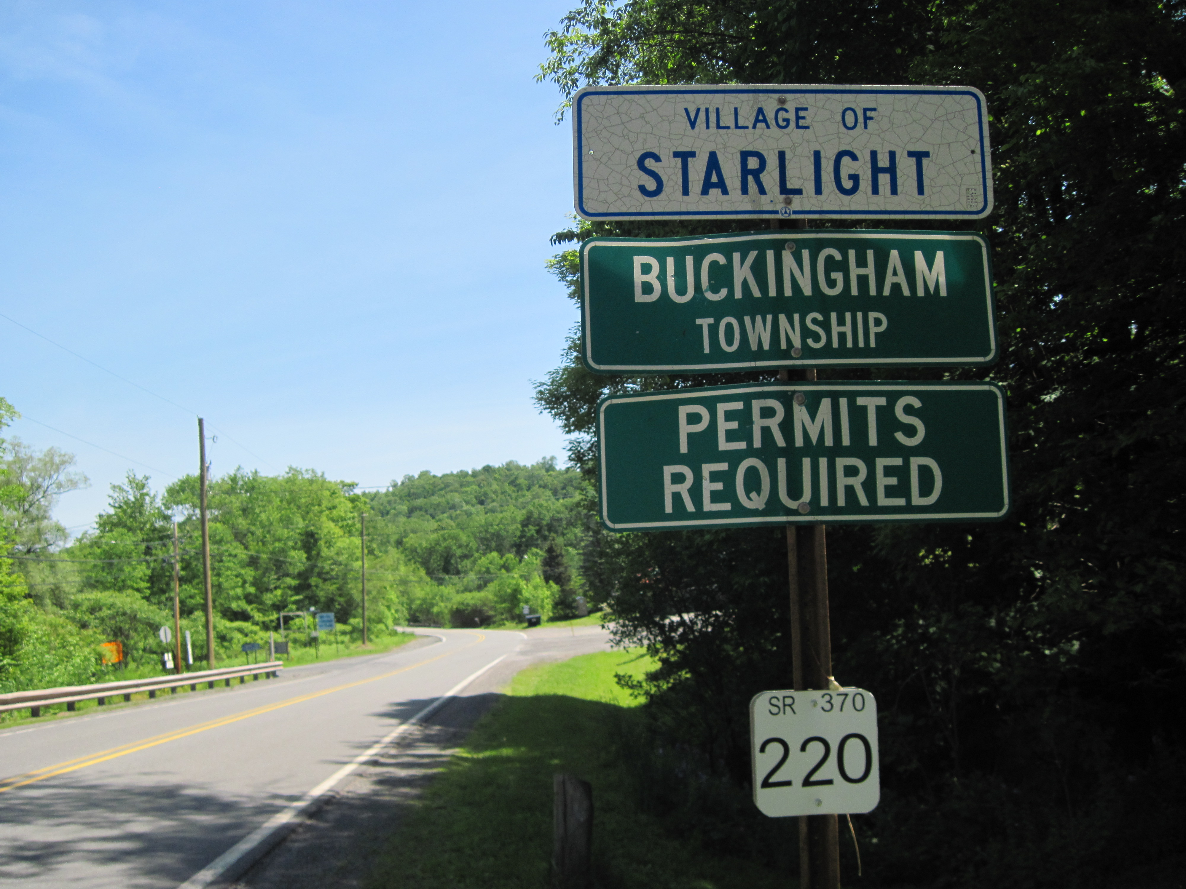 An image of the Pennsylvania Department of Transportation (PennDOT) sign for the Village of Starlight, Pennsylvania, located along Crosstown Highway (PA-370). The sign for Buckingham Township, which contains Starlight, is also visible.